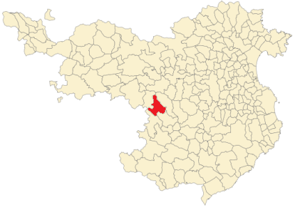 Las Planas